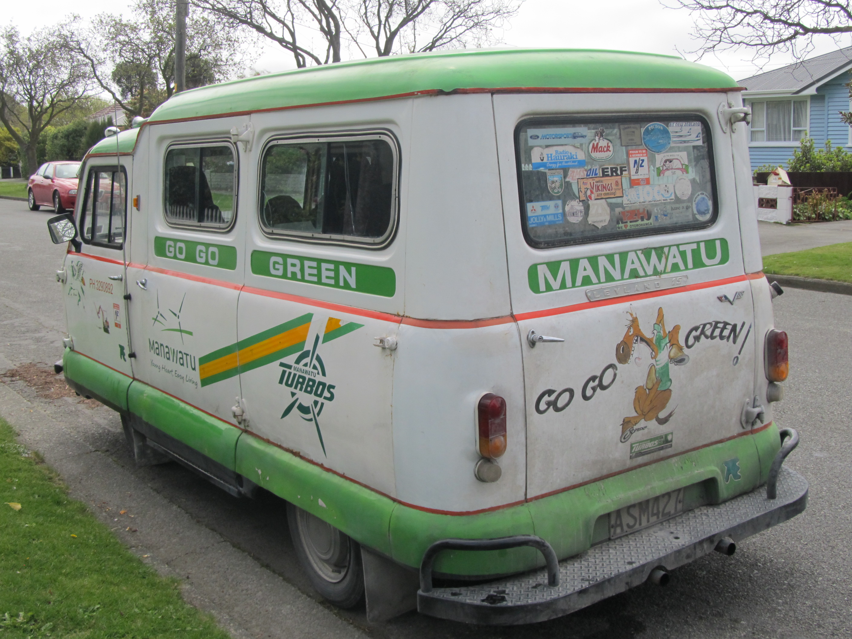 ASM427 A rear view, for the sake of it - look at all those stickers!!